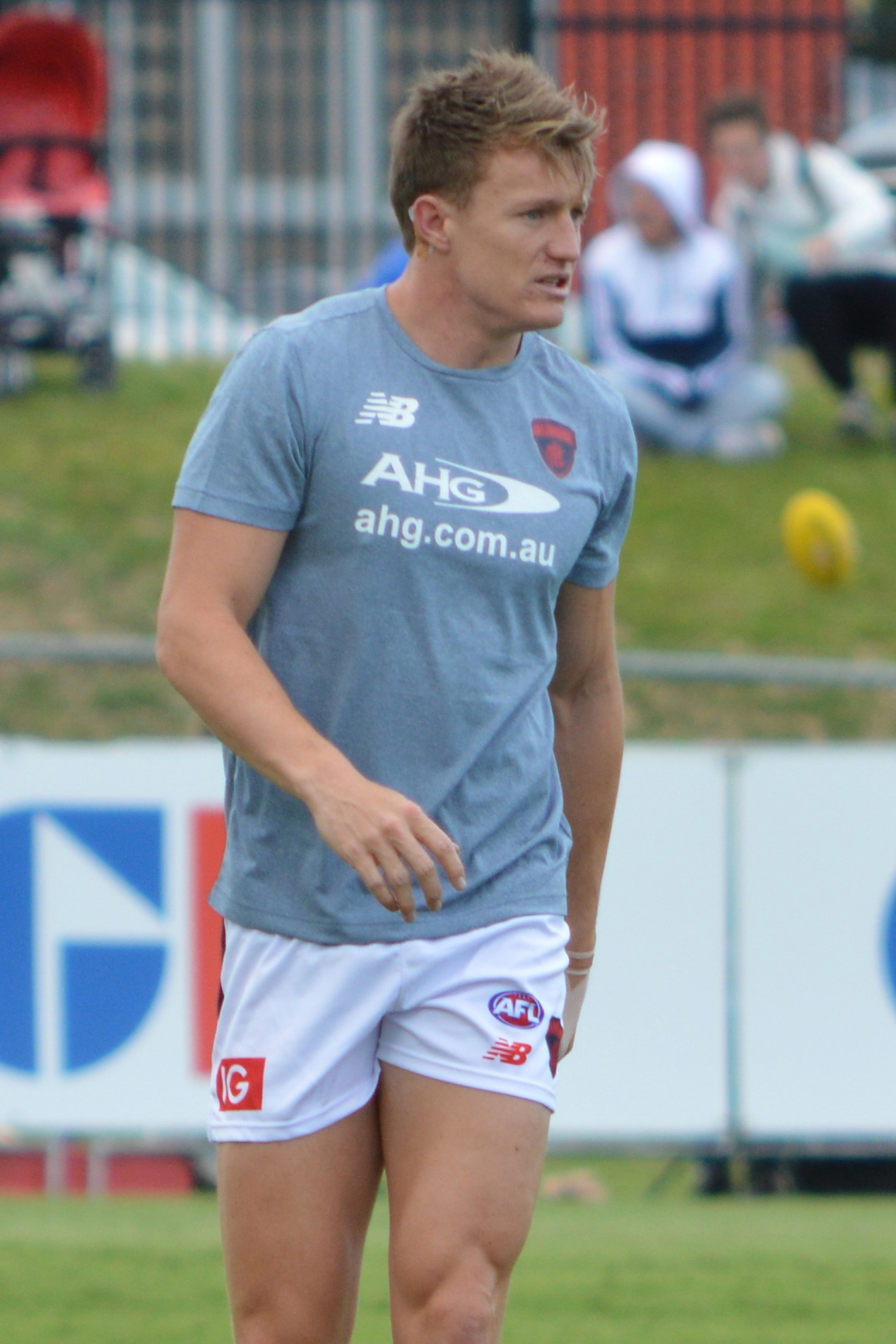 Aaron vandenBerg warming up prior to a pre-season match in February 2017